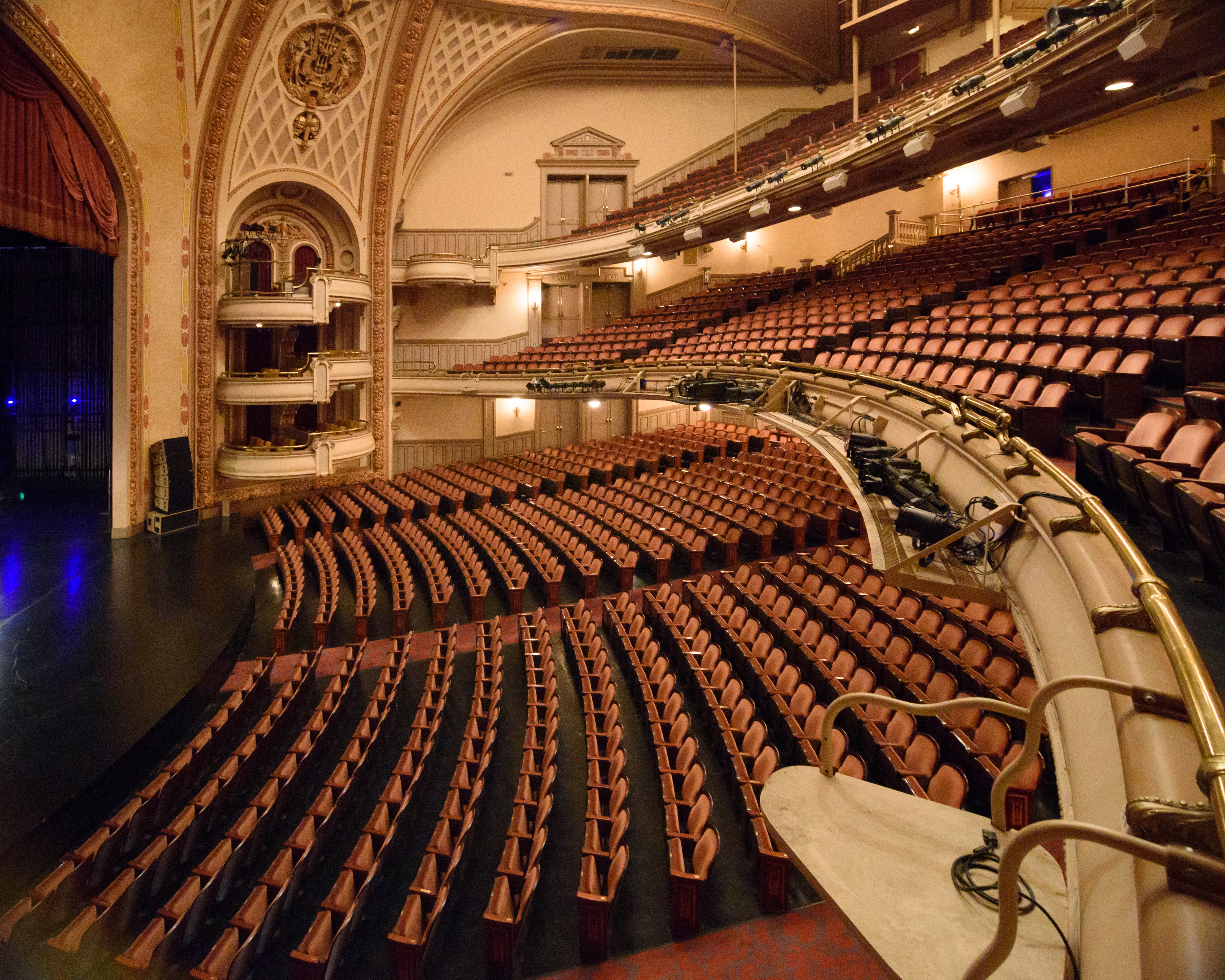 Howard Gilman Opera House, Peter Jay Sharp Building, Brooklyn Academy of Music, Brooklyn, New York City.Site: Brooklyn Academy of Music